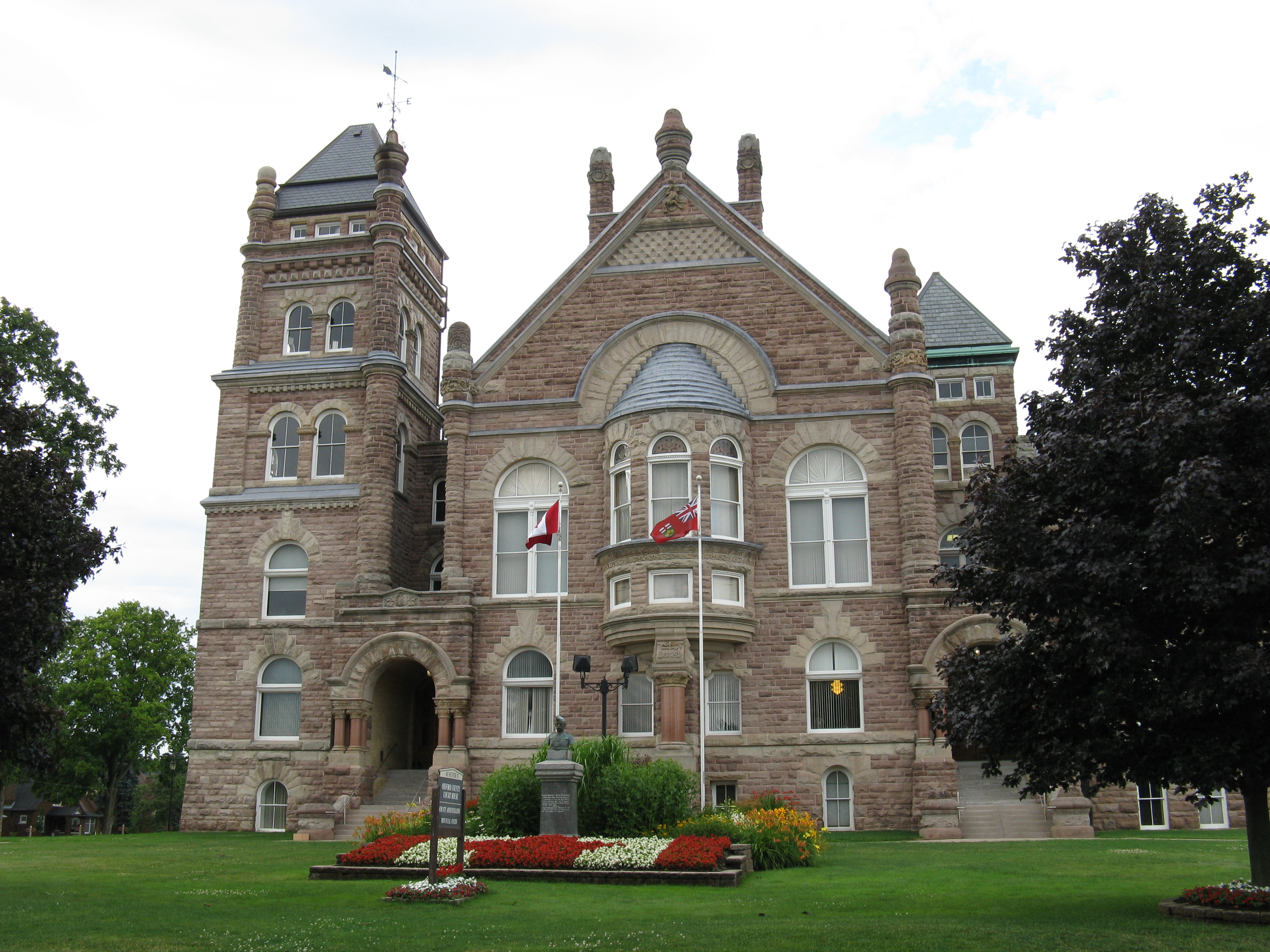 Oxford County Court House in Woodstock, Ontario. Built around 1892.